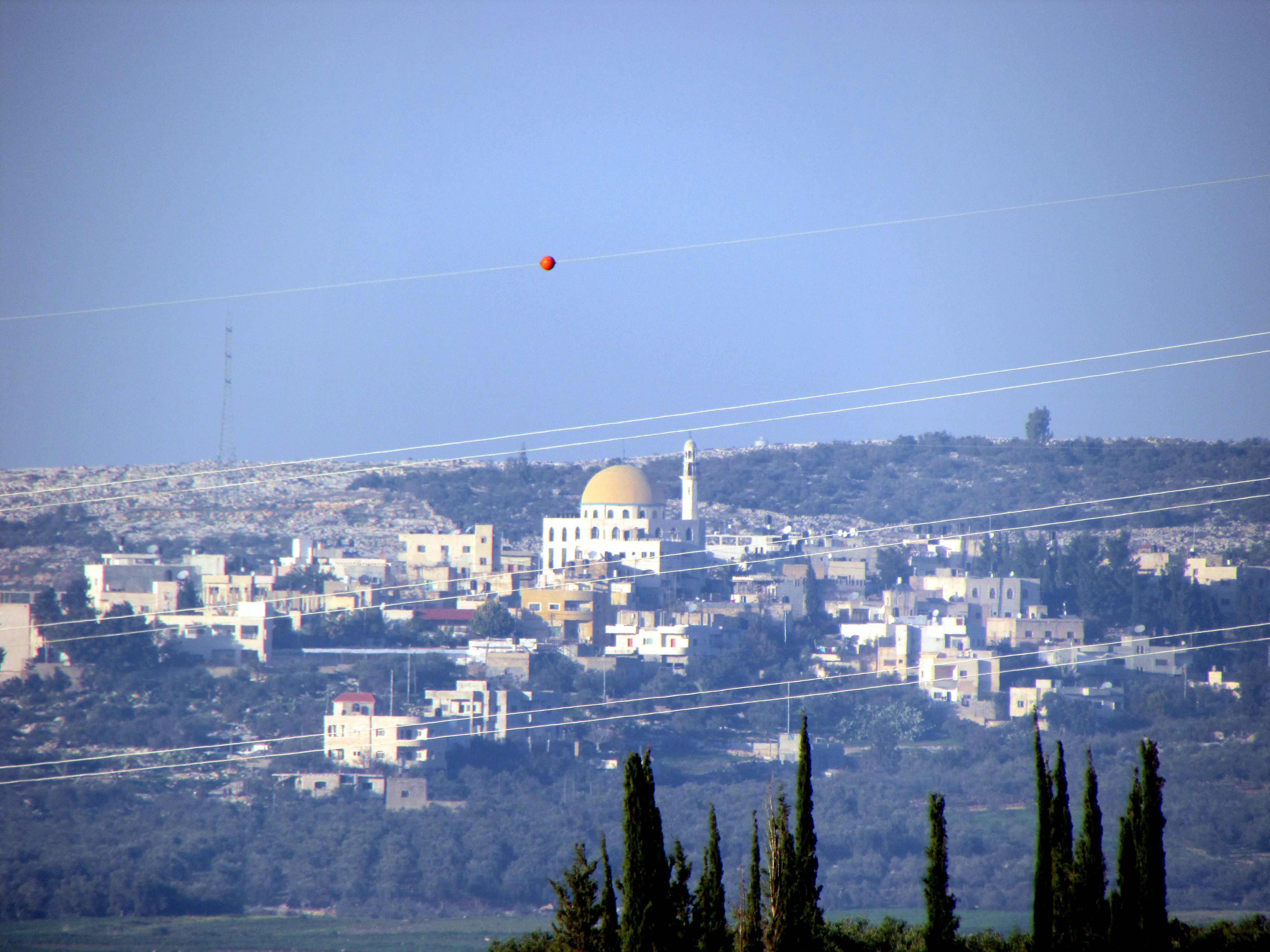 Beit Sira from Mevo Horon